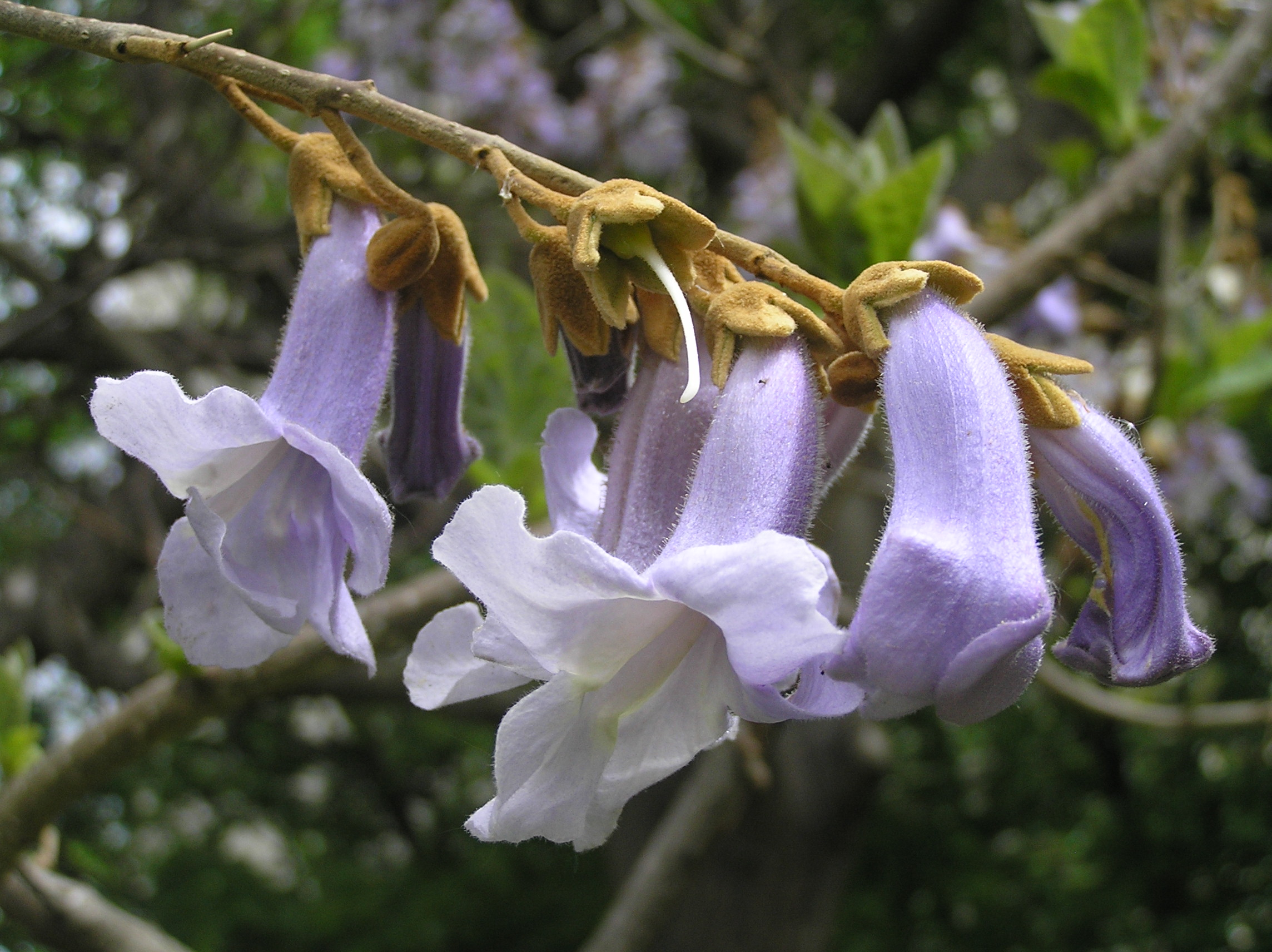 Paulownia tomentosa, Brno-Černá Pole, Czech Republic, introduced